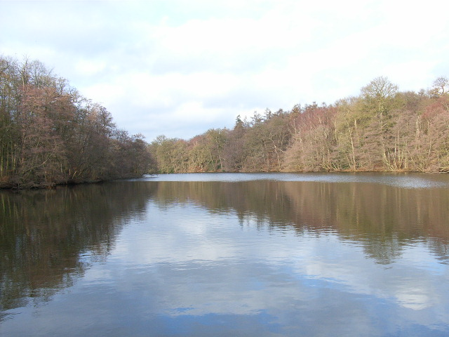 Johnson's Pond, Windsor Great Park. A small waterfall connects this to Virginia Water.